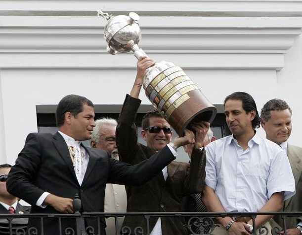 Patricio Urrutia (C) celebrates with President of Ecuador Rafael Correa (L) and Sports Minister Jose Cevallos (R) the 2008's Copa Libertadores of America